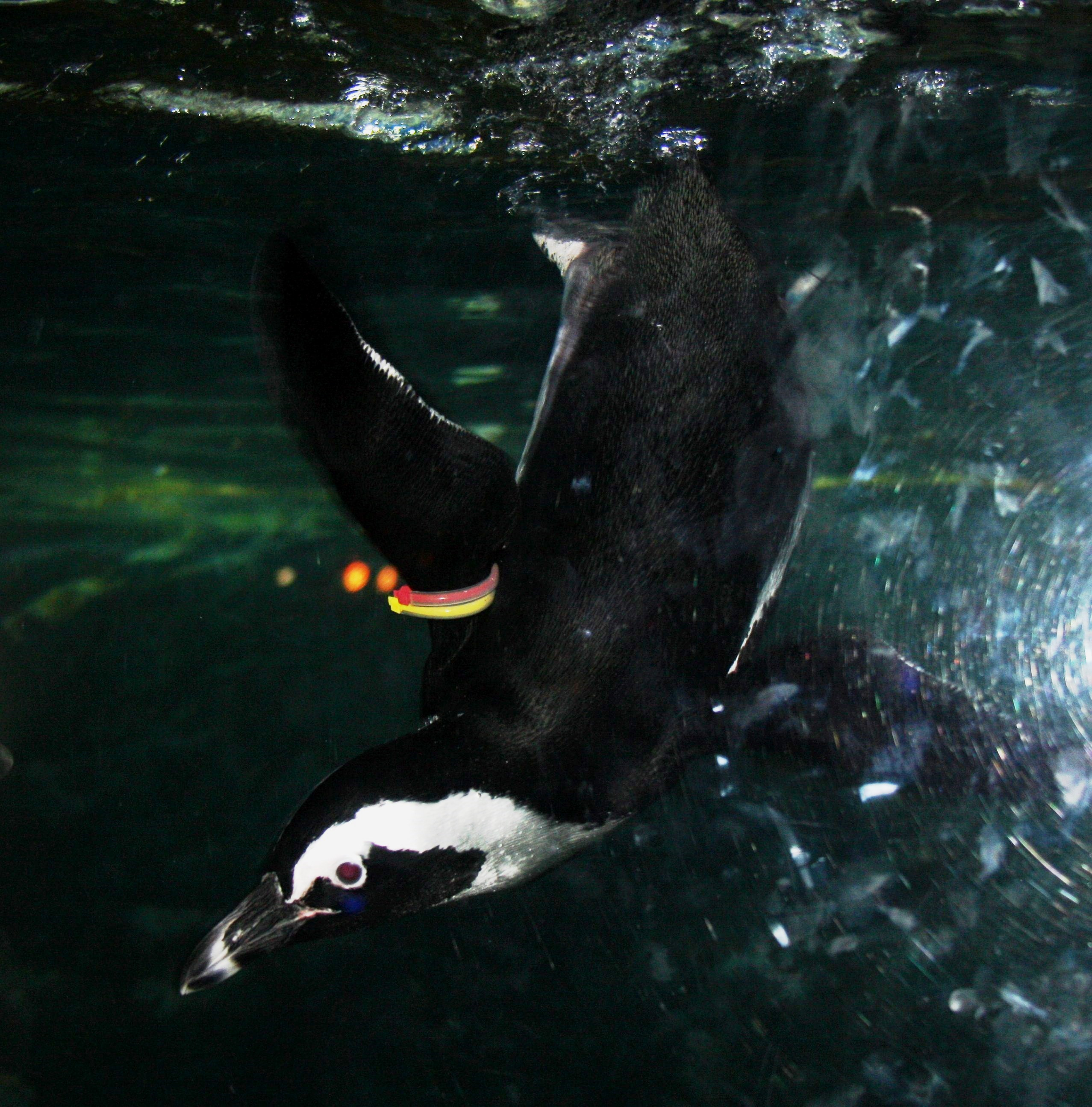 Spheniscus demersus in Siam centre, Bangkok